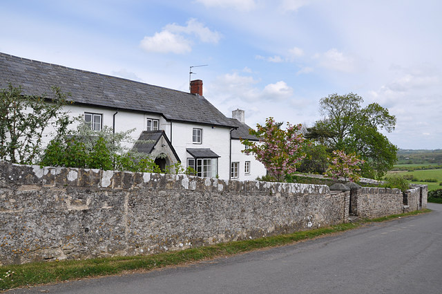 Yr Hen Fferm Dy - Flemingston, Vale of Glamorgan Formerly Gregory Farmhouse and a Grade II listed building, Yr Hen Fferm Dy is a 17th century farmhouse which has been remodelled in the 18th and 19th centuries. It is built from rubble stone, rendered and painted. The small porch is built from stone with the irregularly-shaped quoins left exposed.